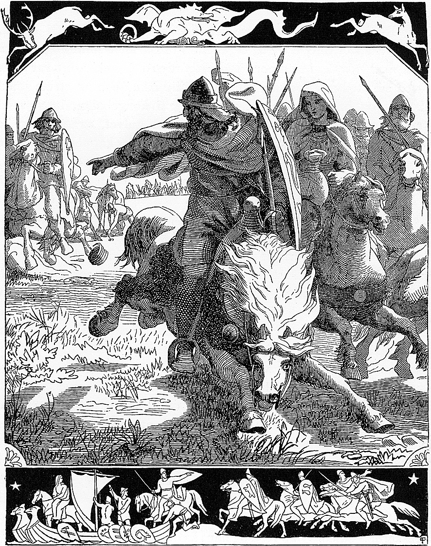 Lorenz Frølich. 1856. Rolf Krake escape the enemy by throw the gold.